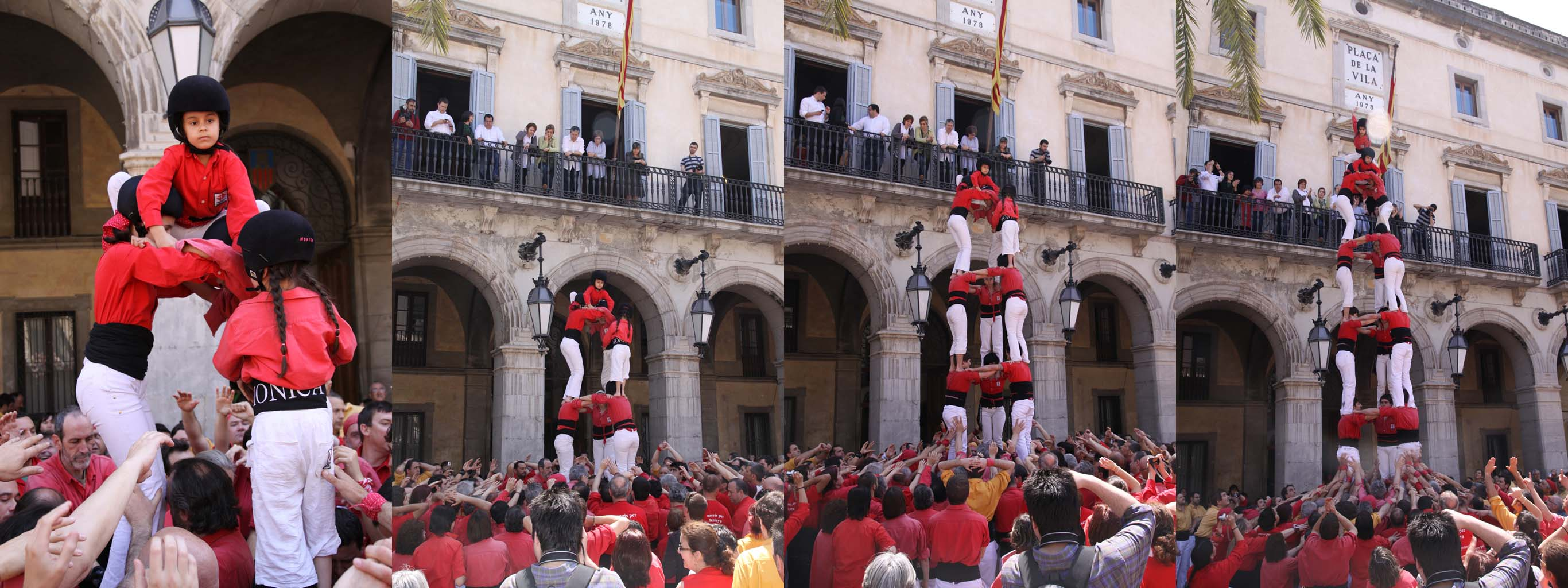 Sequence of 3 de 7 (three of seven) risen from the bottom by the Castellers de Barcelona